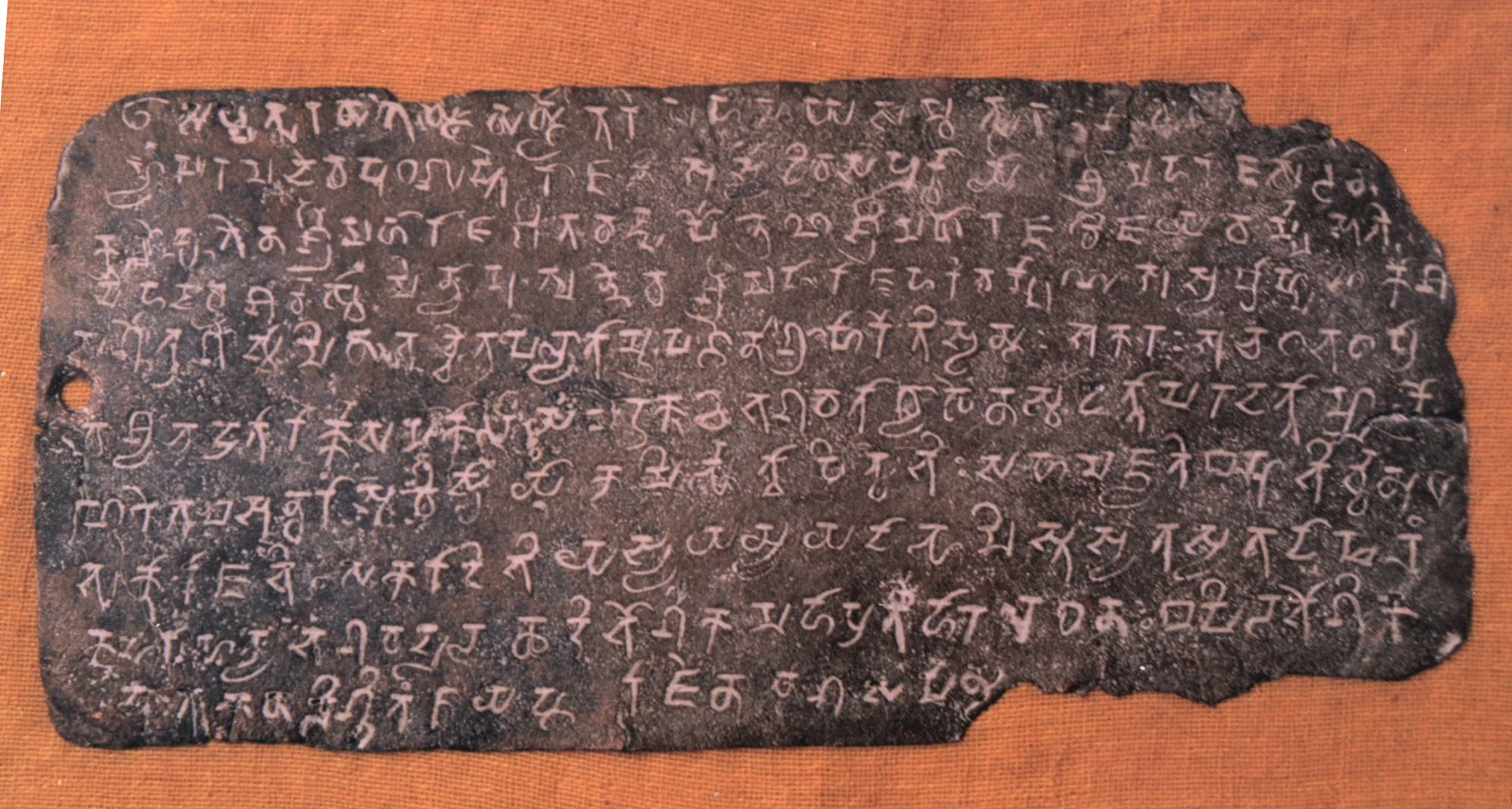 Copper-plate charter of Budhagupta dated anno 168